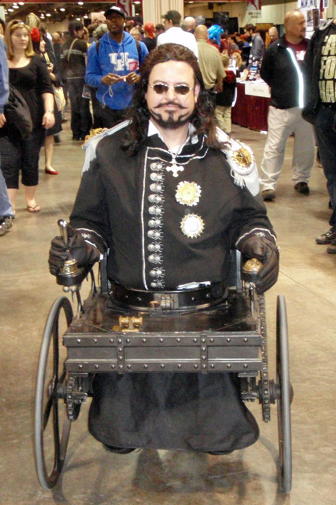 Arliss Loveless from the movie "Wild Wild West&". Great costume! Photo was taken on at the Calgary Comic & Entertainment Expo (BMO Centre, Calgary, Alberta, Canada).